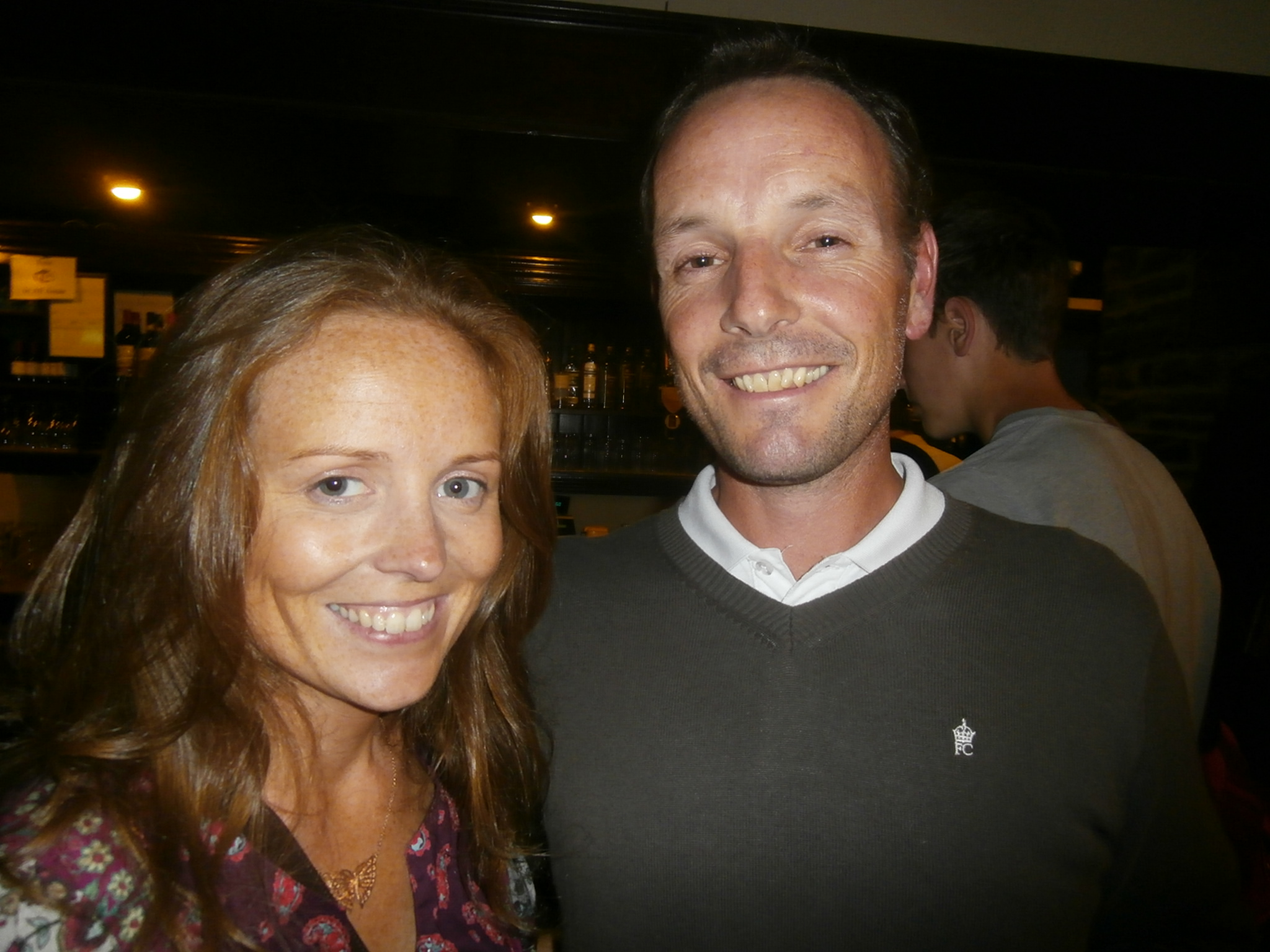 David Higgins grew up in Waterville with his sisters, Linda and Judy and his brother, Brian. He is the son of Liam and Noreen Higgins who came here from Cork around the time Liam became resident professional golfer in Waterville Golf Links. Liam held the world record for the longest shot and his sons, Brian and David, devoted their lives to golf also. David is a very sociable character but he is dedicated to golf and excelled in it from a young age. His wife, Elizabeth Conlon was born in England but grew up in Waterville.